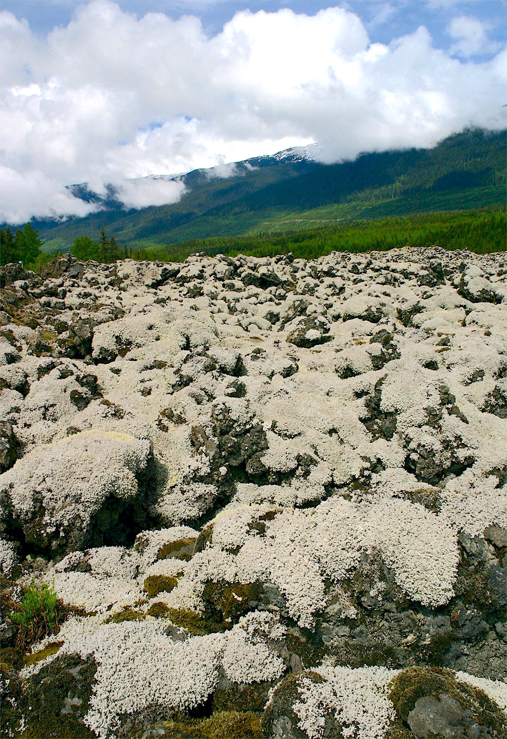 The Nisga'a Memorial Lava Bed Provincial Park (Anhluut'ukwsim Laxmihl Angwinga'asankswhl Nisga'a)The Nisga'a Memorial Lava Bed Provincial Park